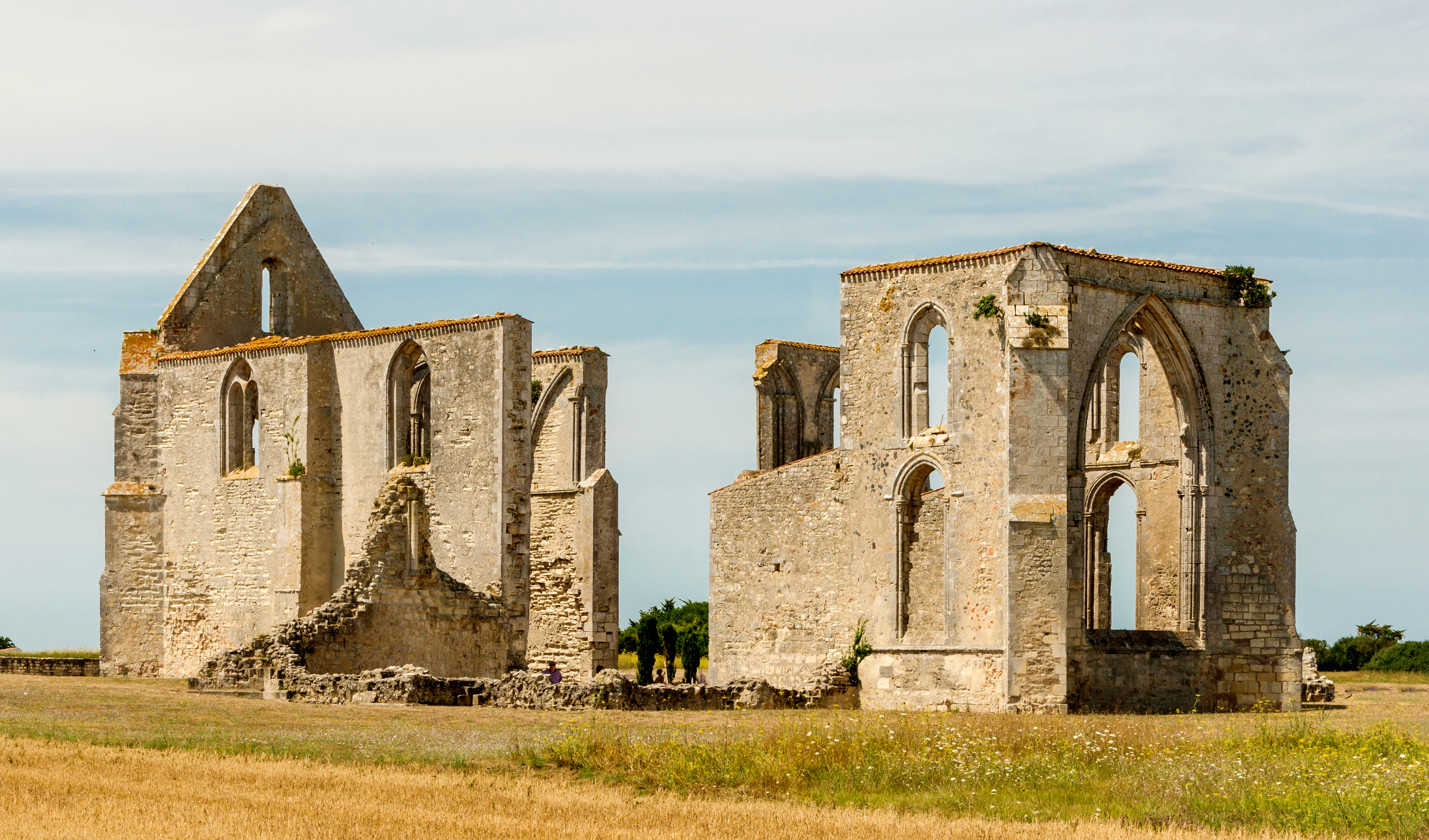 Abbey Notre-Dame de Ré, Ré Island, Charente-Maritime, France